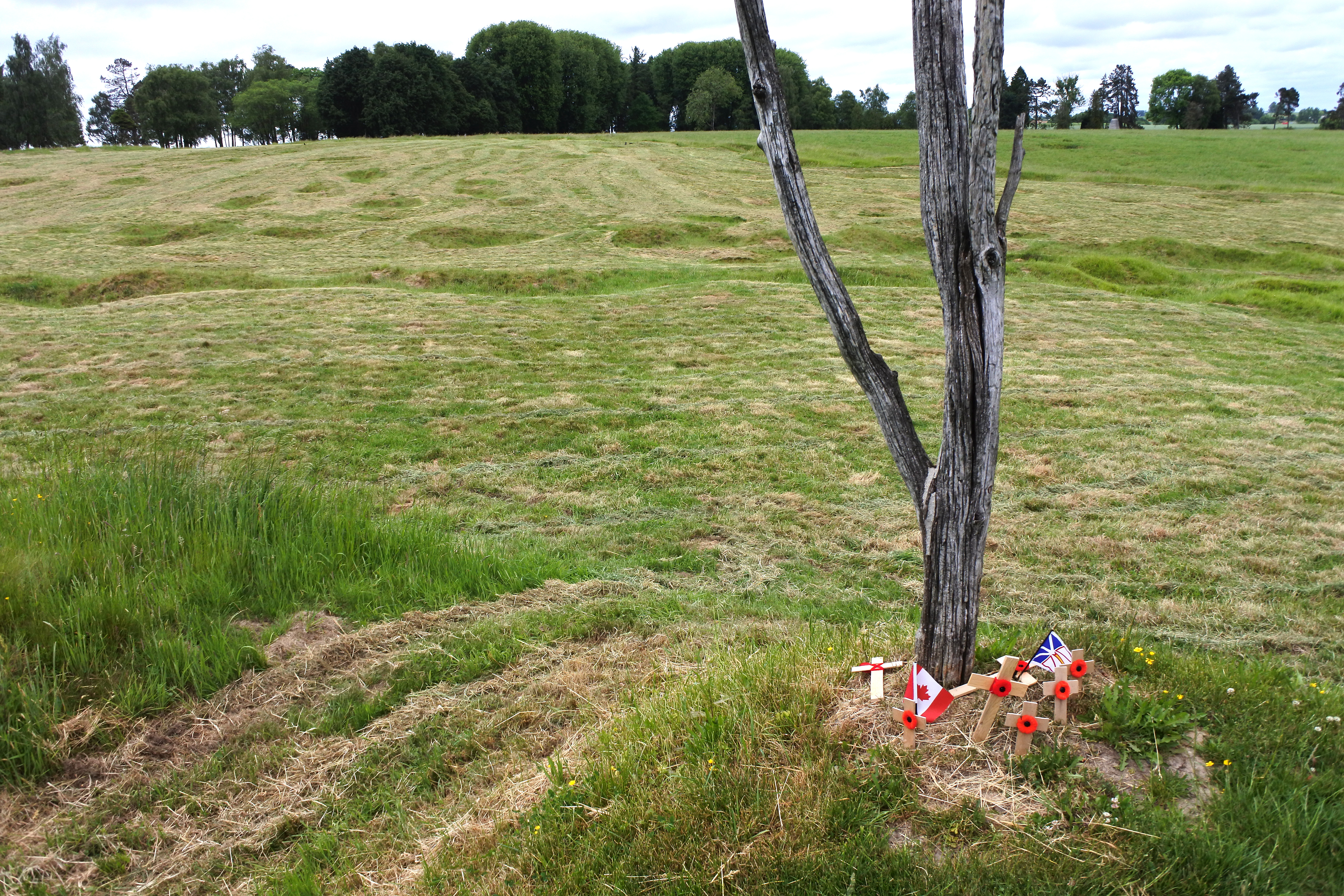 Danger Tree site and replica, Beaumont-Hamel battlefield.